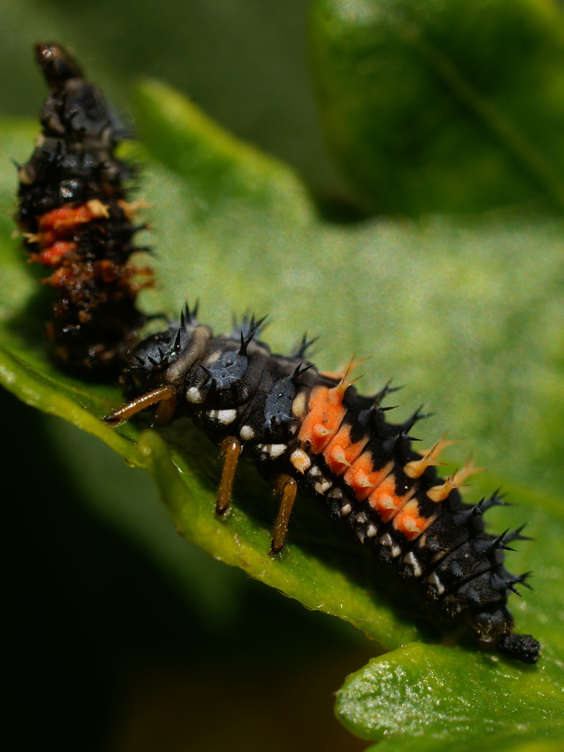 Larva of Harmonia axyridis.